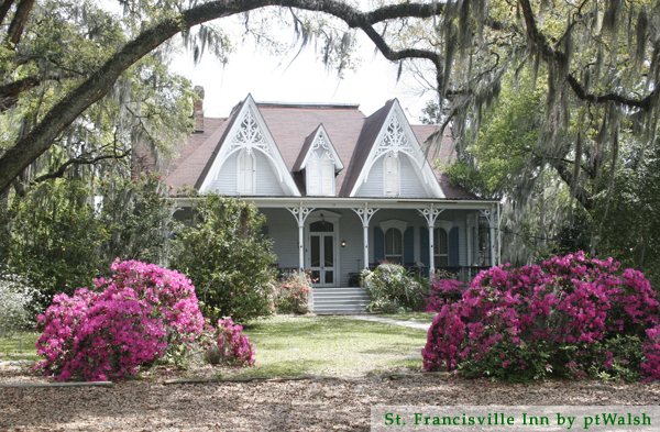 Front view - St. Francisville Inn, a bed and breakfast located in the historic district of St. Francisville, La.